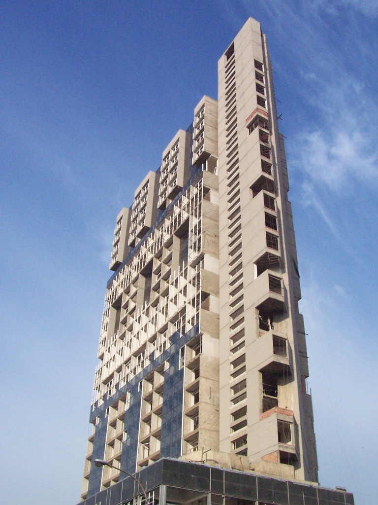 Coral State, intelligent building located in Cordoba, Argentina.